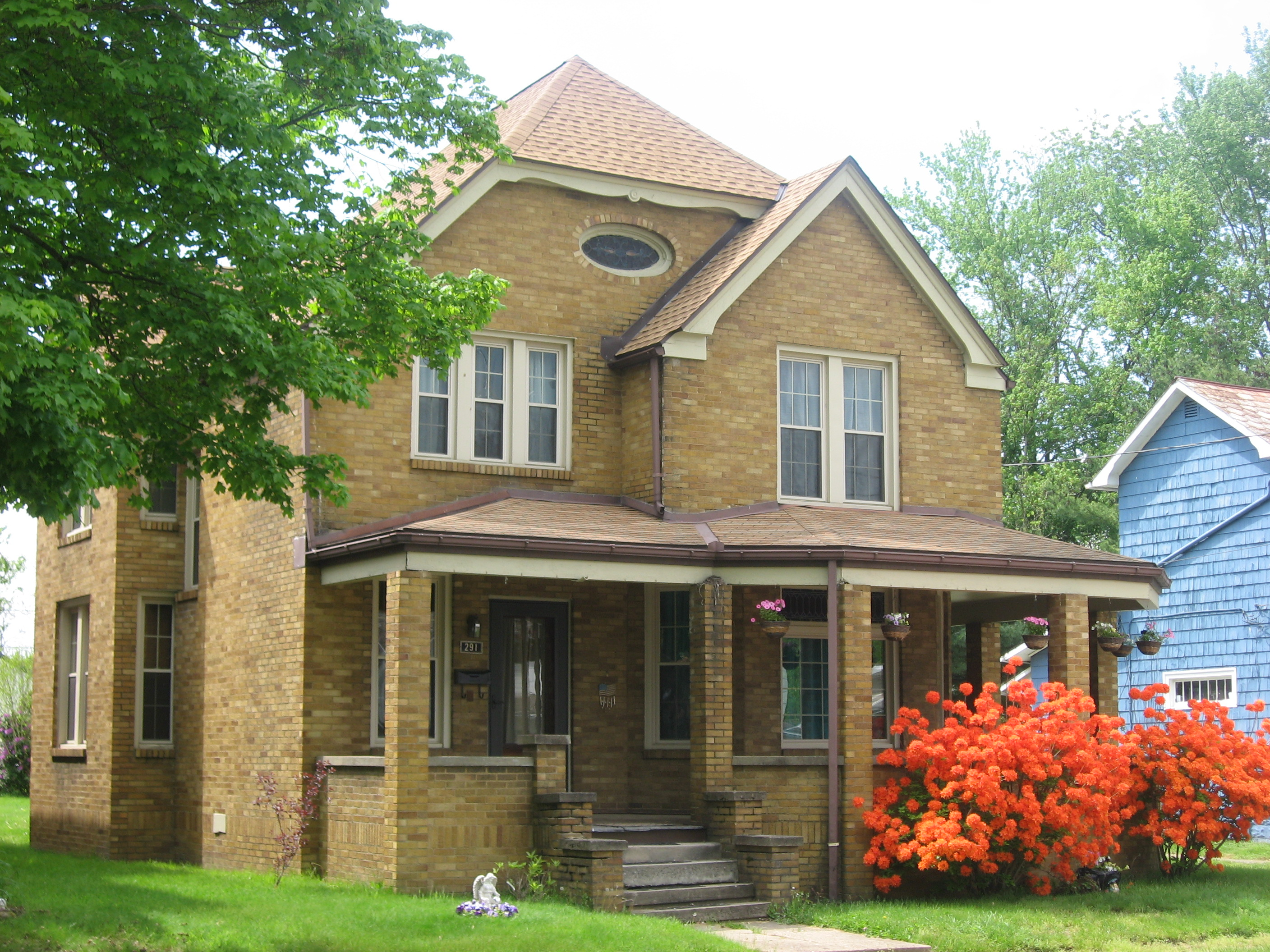 Front and southern side of the C.W. Ransbottom House, located at 291 Washington Street in Roseville, Ohio, United States. Built in 1904, it is listed on the National Register of Historic Places.